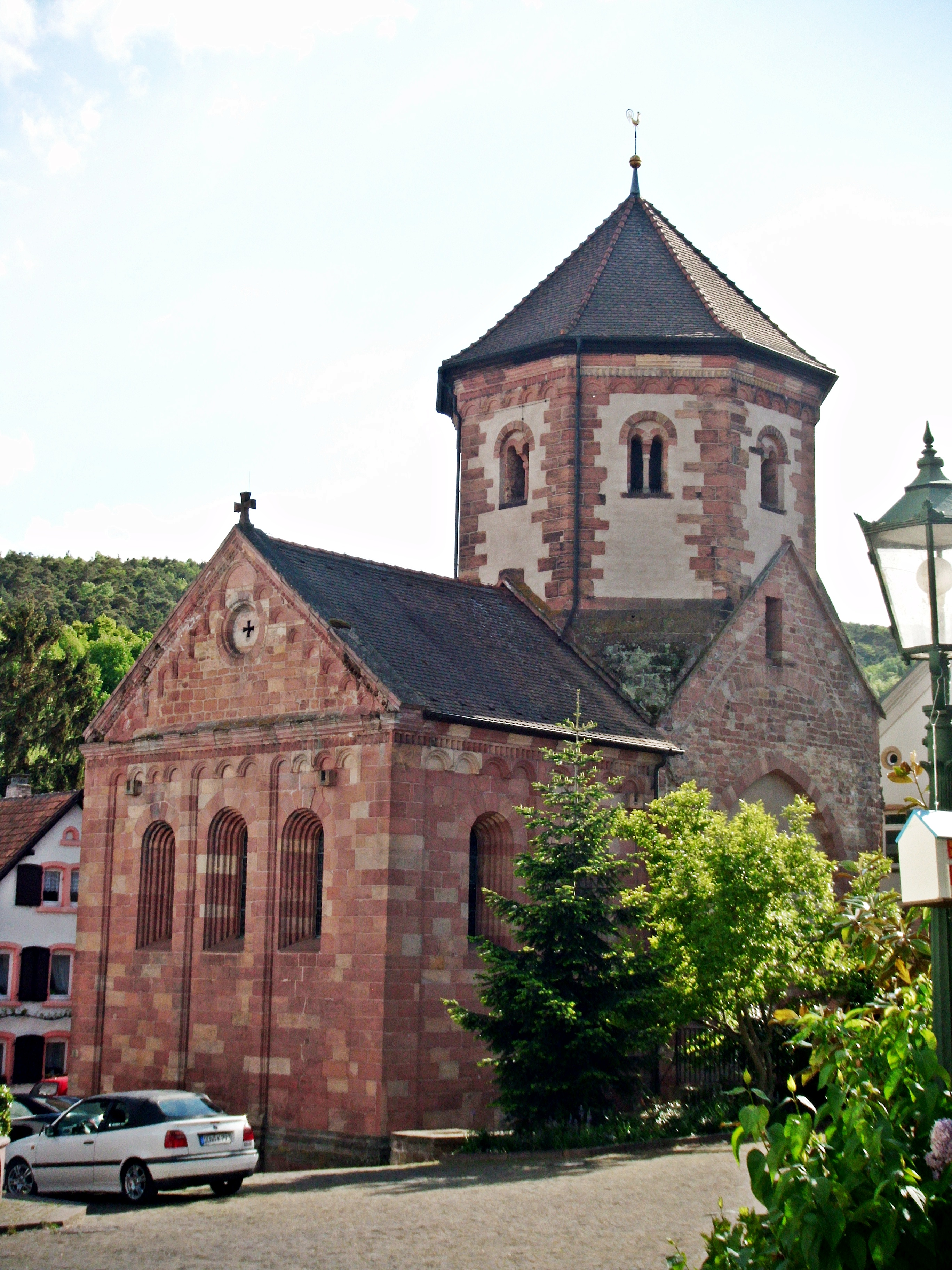 Klosterkirche Seebach, Bad Dürkheim